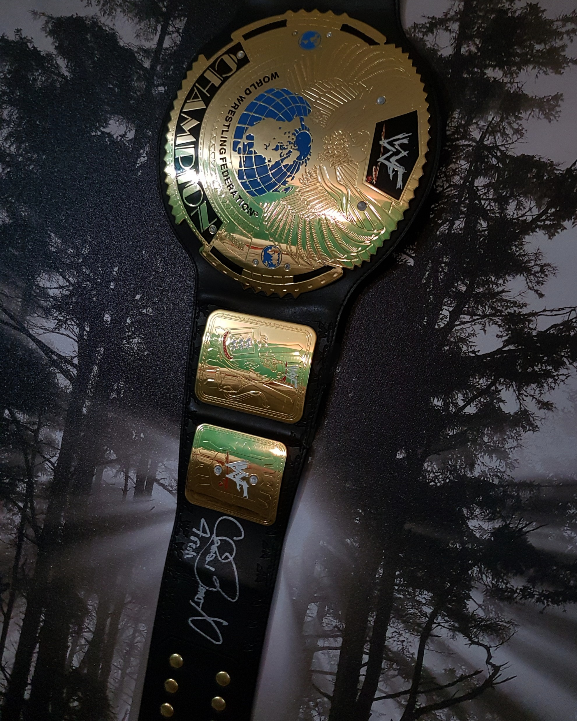 WWF CHAMPIONSHIP BELT CHRIS BENOIT